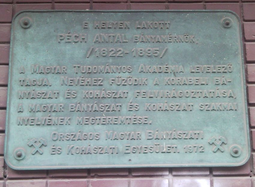 Antal Péch commemorative plaque in Budapest District I, Batthyány Street No 29